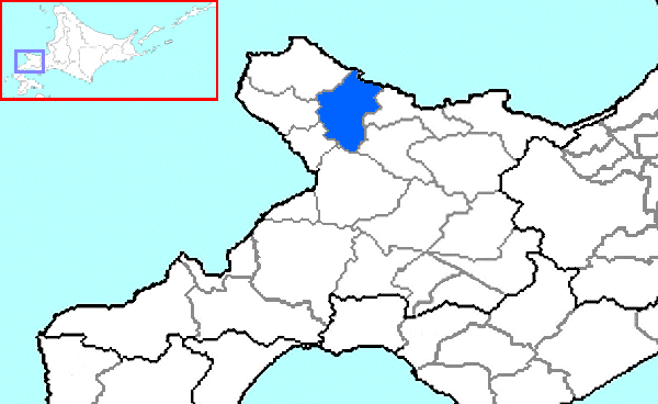 The location of Furubira in Shiribeshi Subprefecture, Hokkaido Prefecture, Japan.